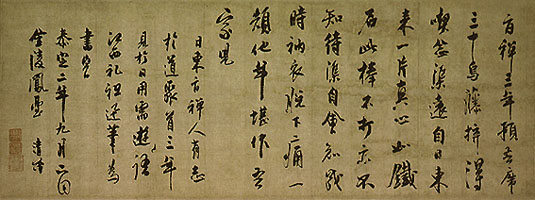 Farewell verse to Betsugen Enshi (別源円旨送別偈, Betsugen Enshi sōbetsu-ge)